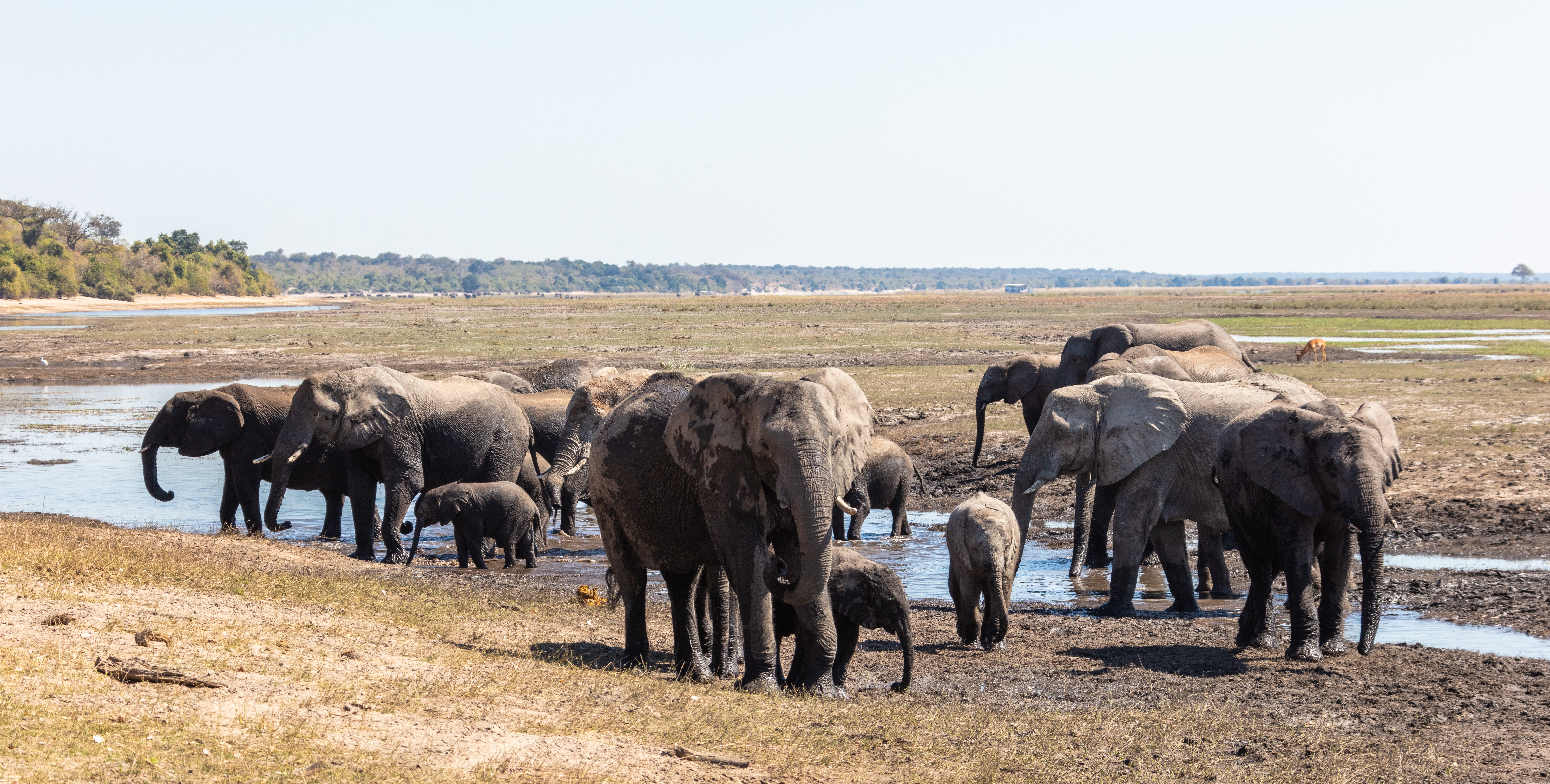 African bush elephants (Loxodonta africana), Chobe National Park, Botsuana